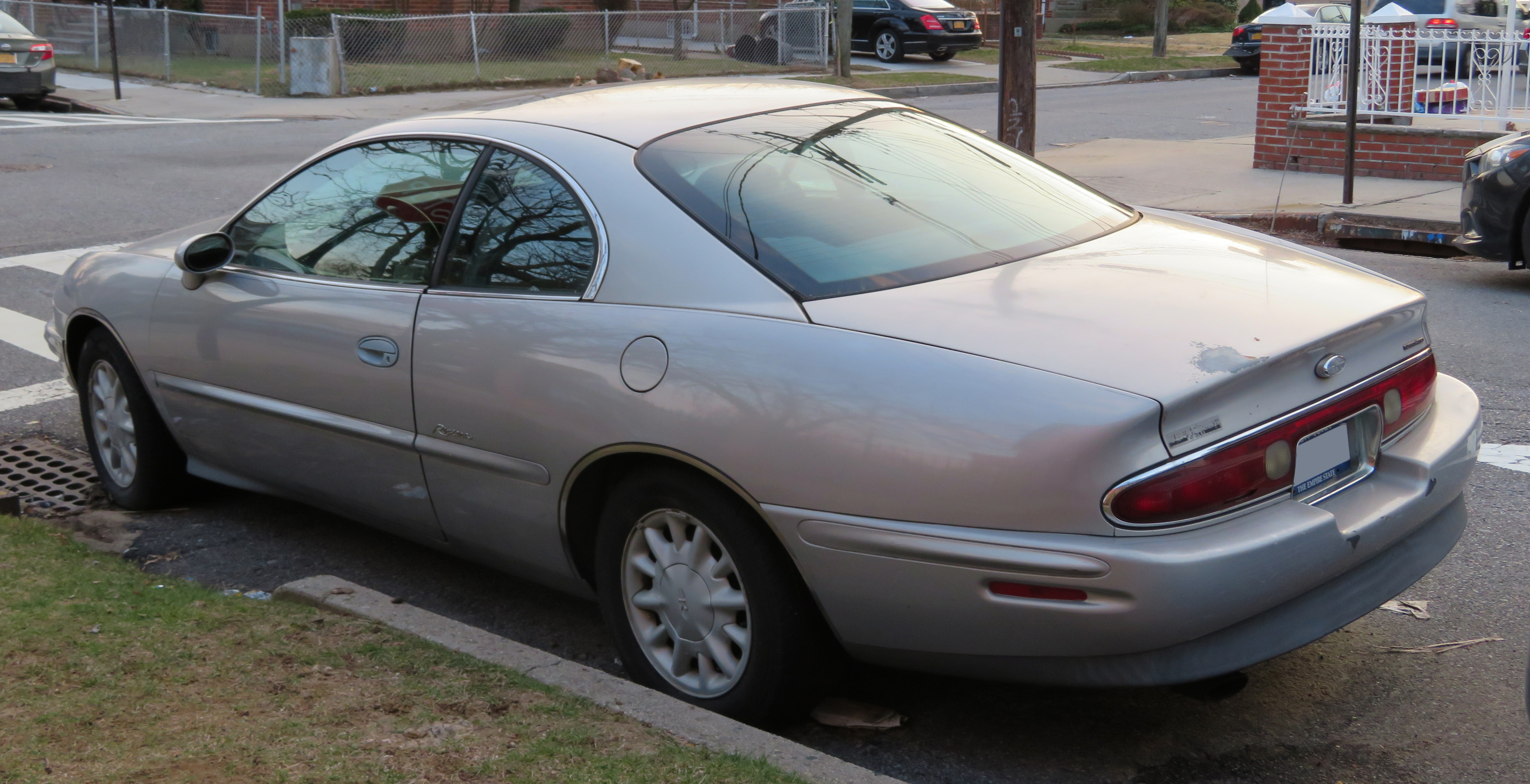 A 1998 Buick Riviera photographed in Queens, New York, USA